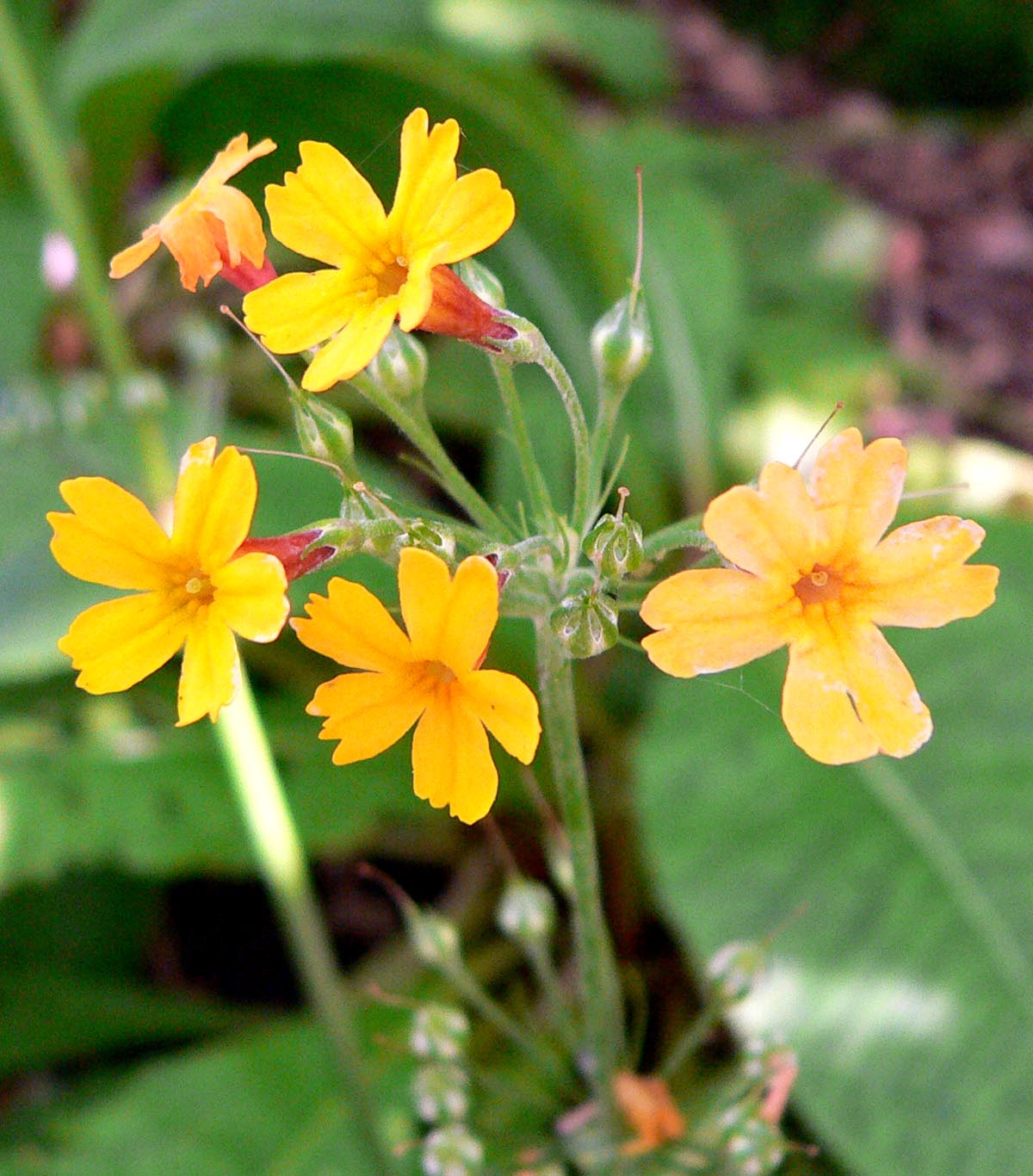 Photo of Primula prolifera at VanDusen Botanical Garden